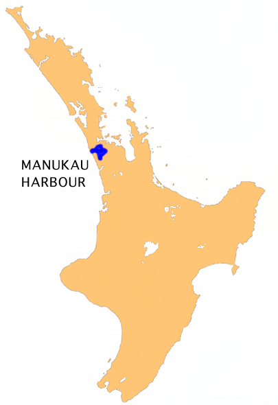 Location map for Manukau Harbour, New Zealand